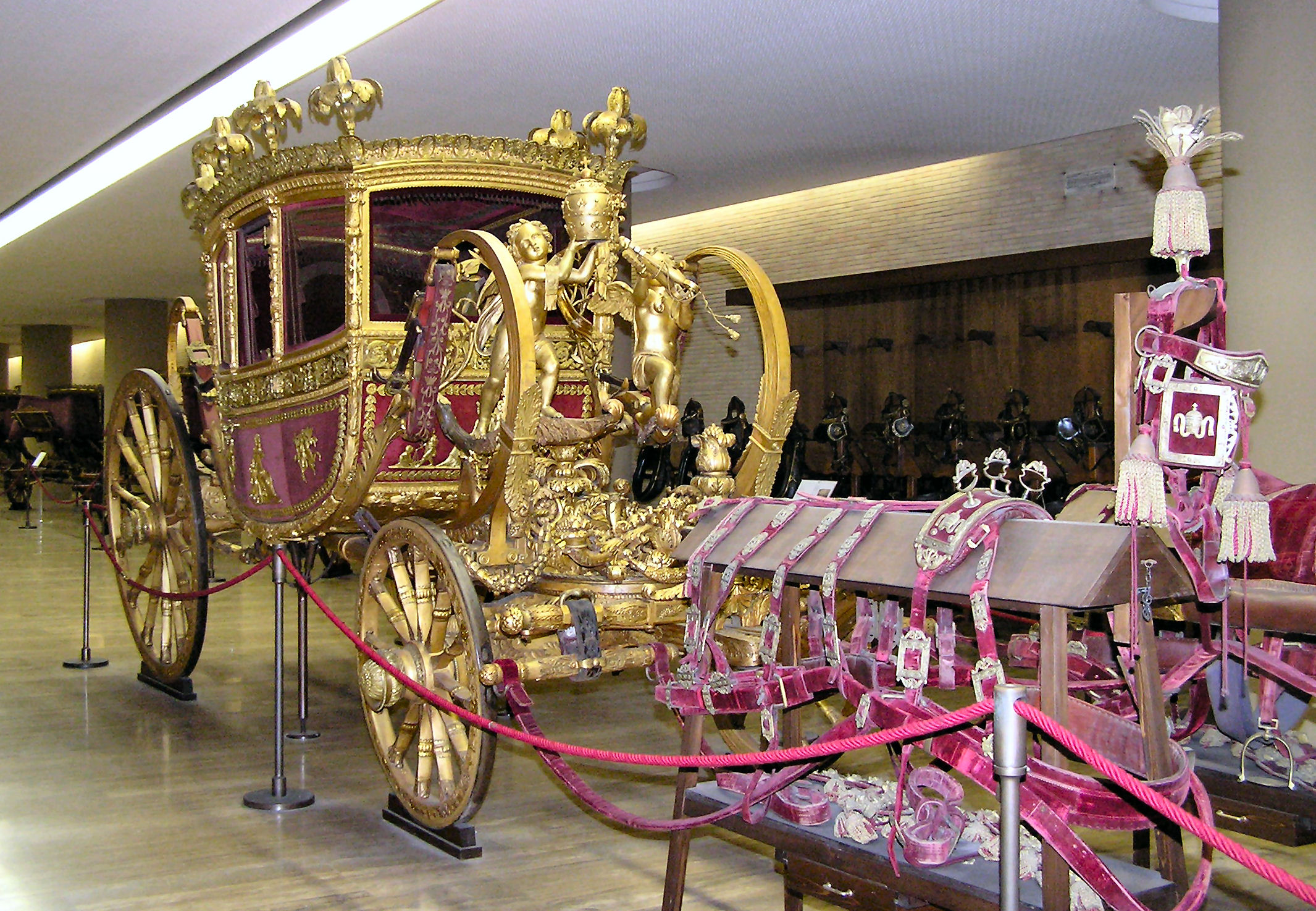 Papal Carriage, Vatican